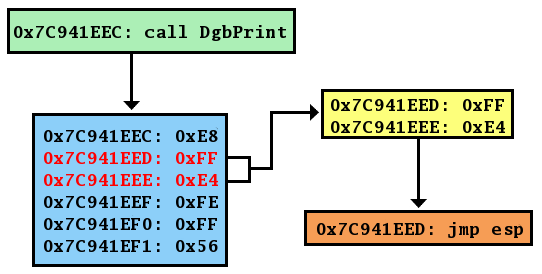 Image illustrating how the "jump to ESP" stack overflow technique works